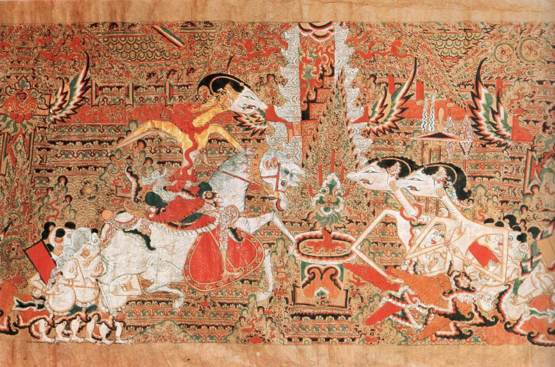 Wayang beber Geleran, picture roll 1, scene 3. Radèn Gunung Sari on horse says goodbye to his advisers Tratag and Gimeng before travelling to princess Kumuda Ningrat